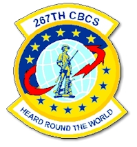 Author: US Govt rationale: unique logo for unit identification